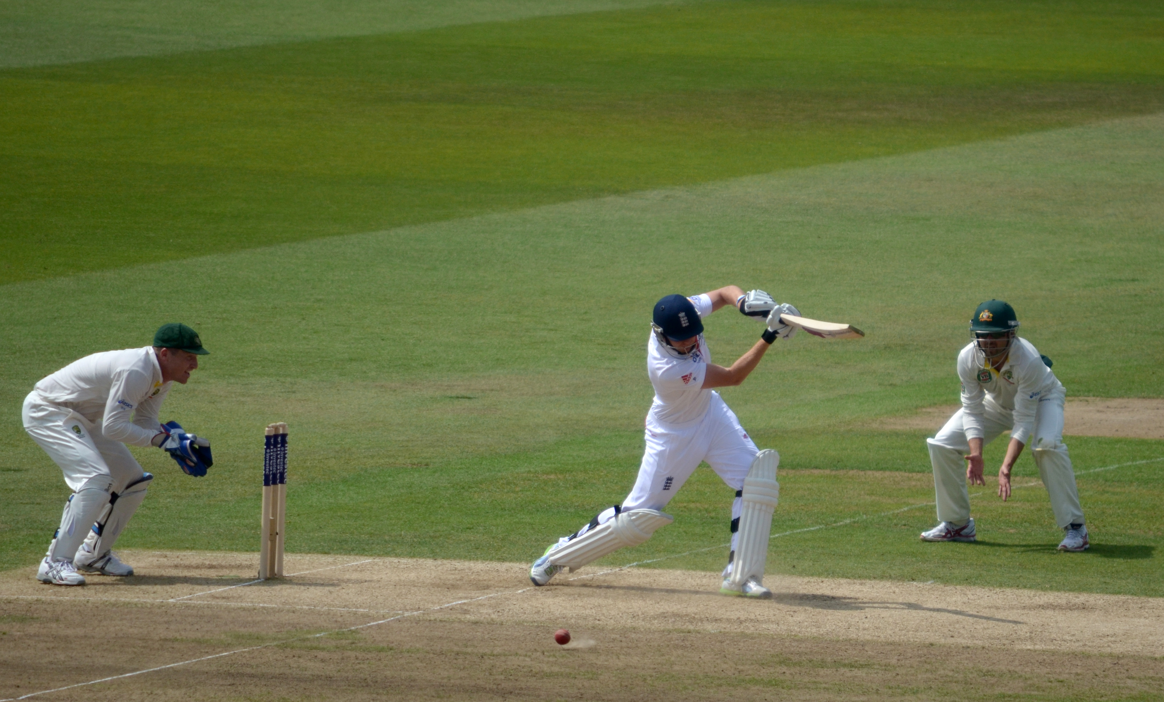 England batsman Jonny Bairstow plays a shot during the 3rd day of the 1st Test of the 2013 England v Australia Ashes series at Trent Bridge, Nottingham. Brad Haddin is keeping wicket.